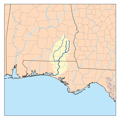 This is a map of the Choctawhatchee River watershed. Also shown is its longest tributary, the Pea River. I, Karl Musser, created it based on USGS data.